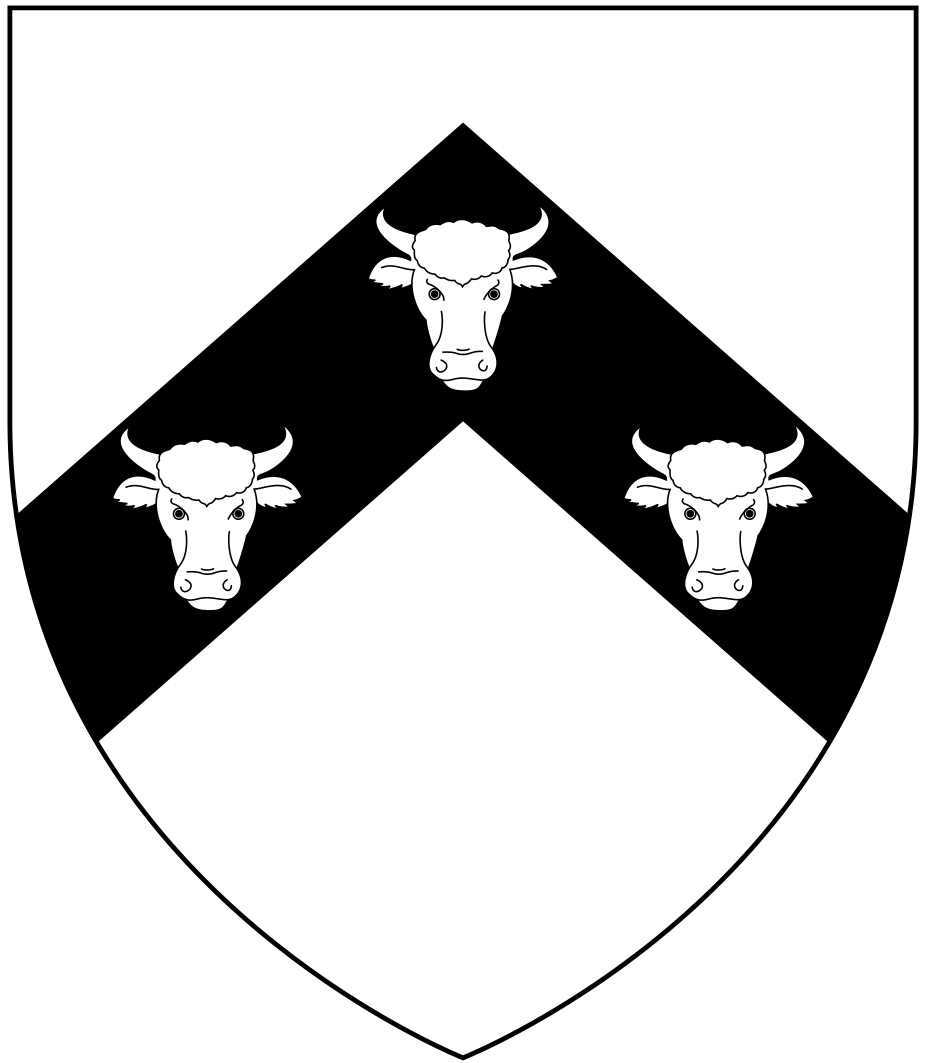 Arms of Hillersdon of Membland in the parish of Holbeton, Devon (originally seated at Hillersdon in the parish of Cullompton (Pole, Sir William (d.1635), Collections Towards a Description of the County of Devon, Sir John-William de la Pole (ed.), London, 1791, pp.187, 308)): Argent, on a chevron sable three bull's heads cabossed of the field (Vivian, Lt.Col. J.L., (Ed.) The Visitations of the County of Devon: Comprising the Heralds' Visitations of 1531, 1564 & 1620, Exeter, 1895, p.469)